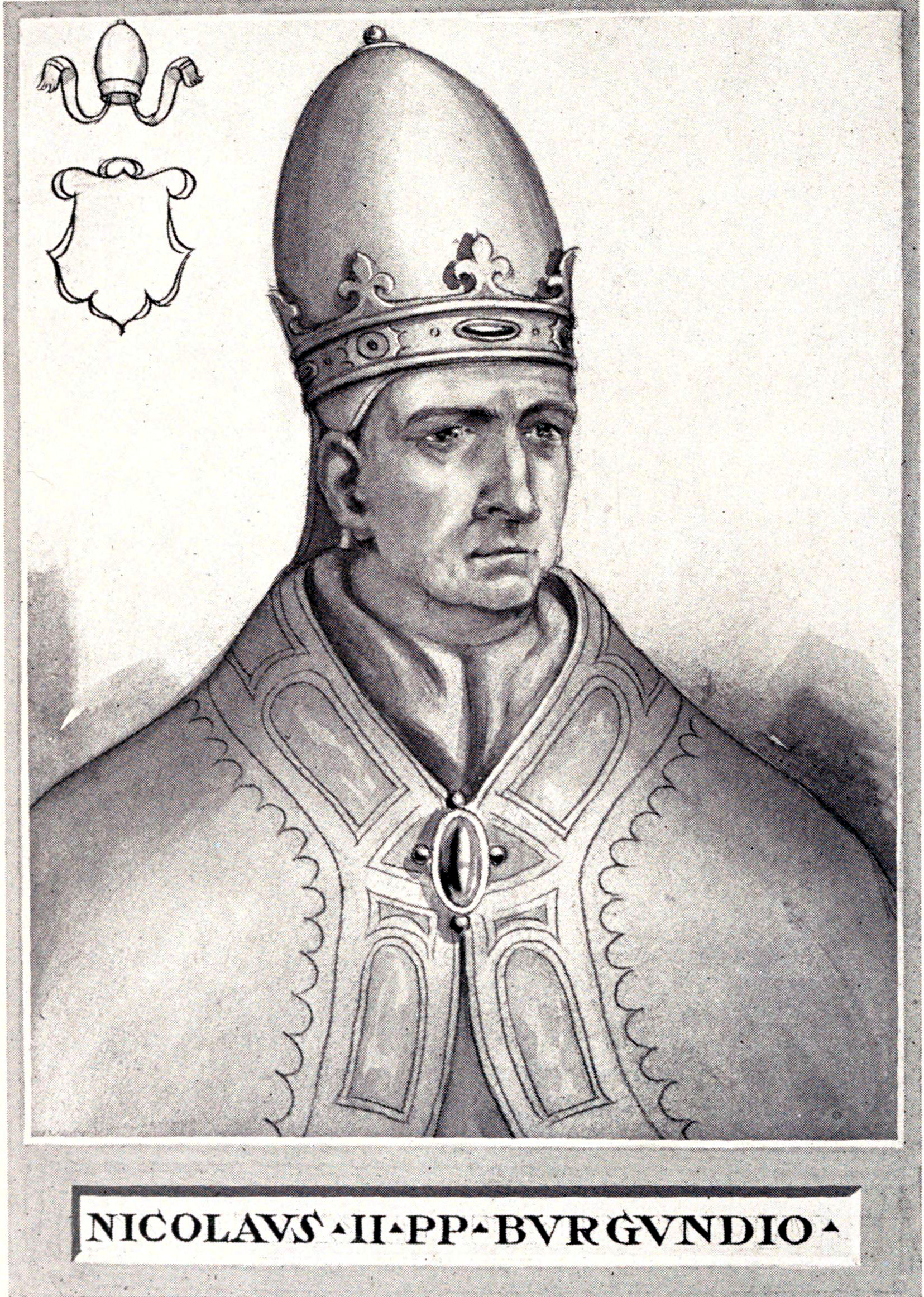 This illustration is from The Lives and Times of the Popes by Chevalier Artaud de Montor, New York: The Catholic Publication Society of America, 1911. It was originally published in 1842.